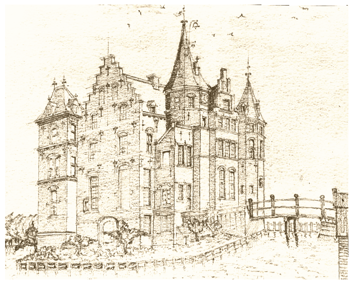 Kasteel De Lathmer Wilp, Netherlands